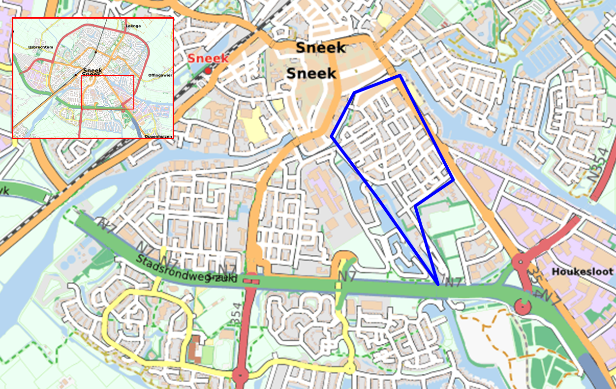 Own reproduction of OpenStreetMap. Sperkhem-neighbourhood Sneek.